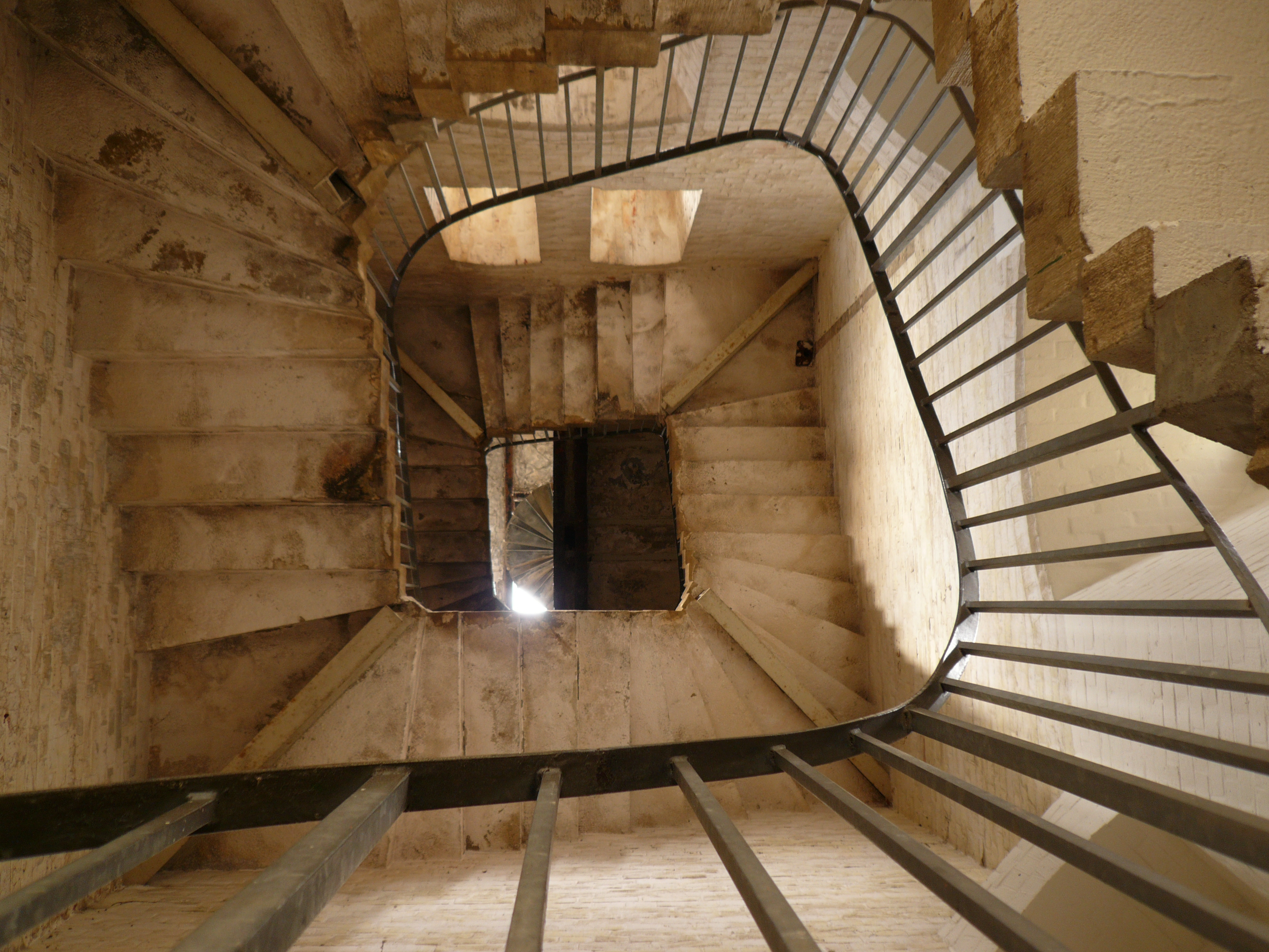 Bismarckturm of Hildesheim, interior; a view looking up the interior stairwell.